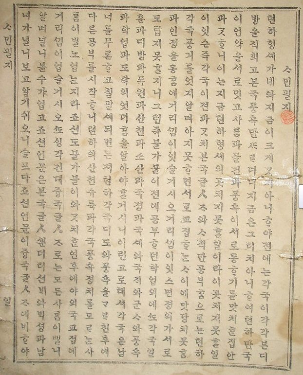 The first modern textbook in Korean Language